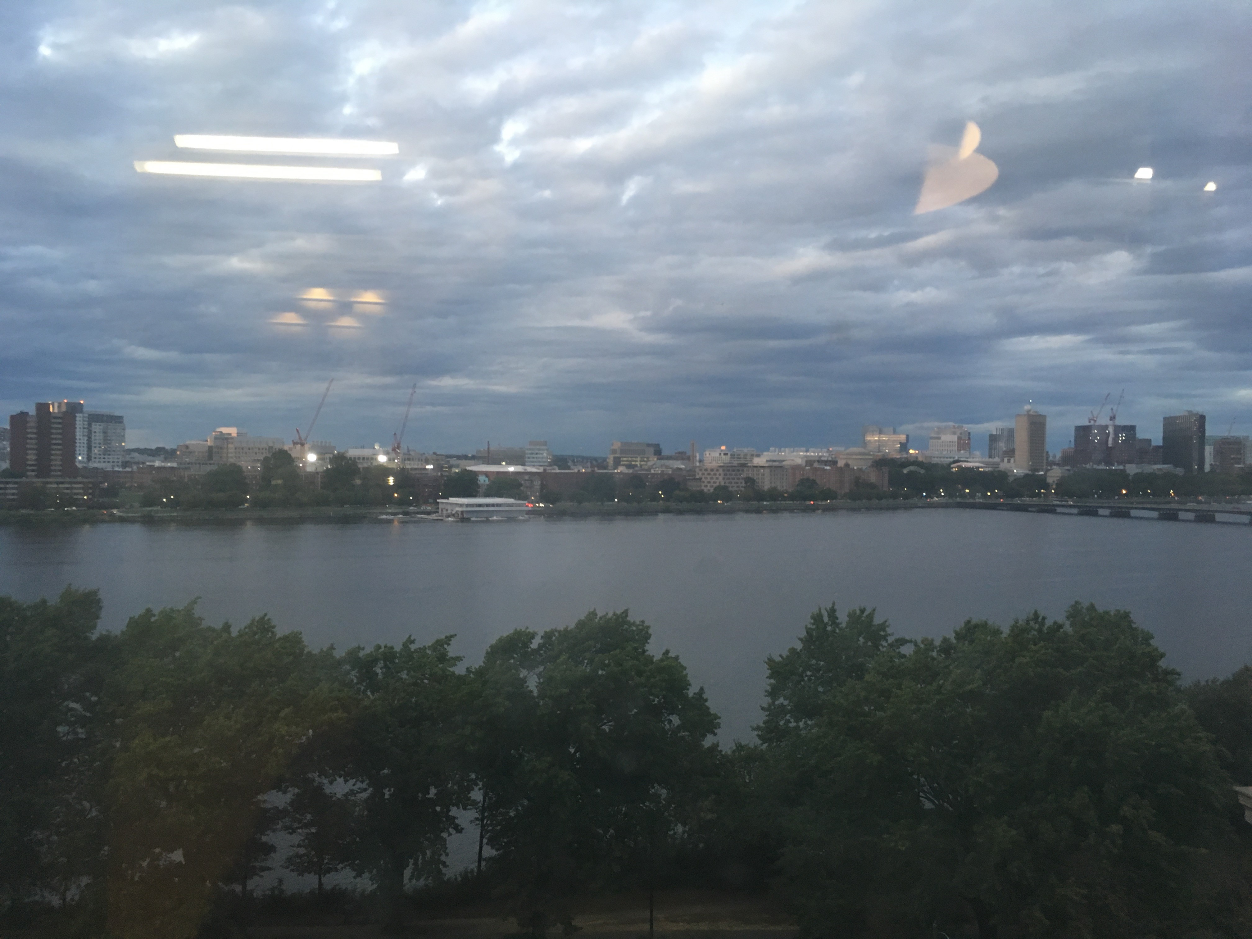 This is the 9th floor of Kilachand Hall. The view is of the Charles River Basin and Cambridge.